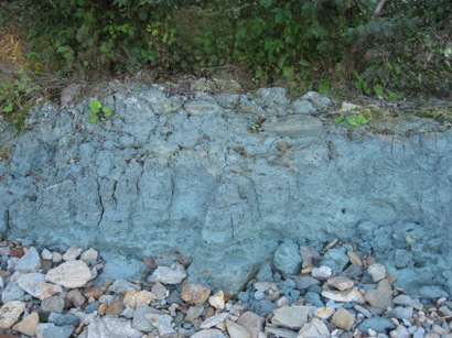 Blue clay outcrop near Saka Manor